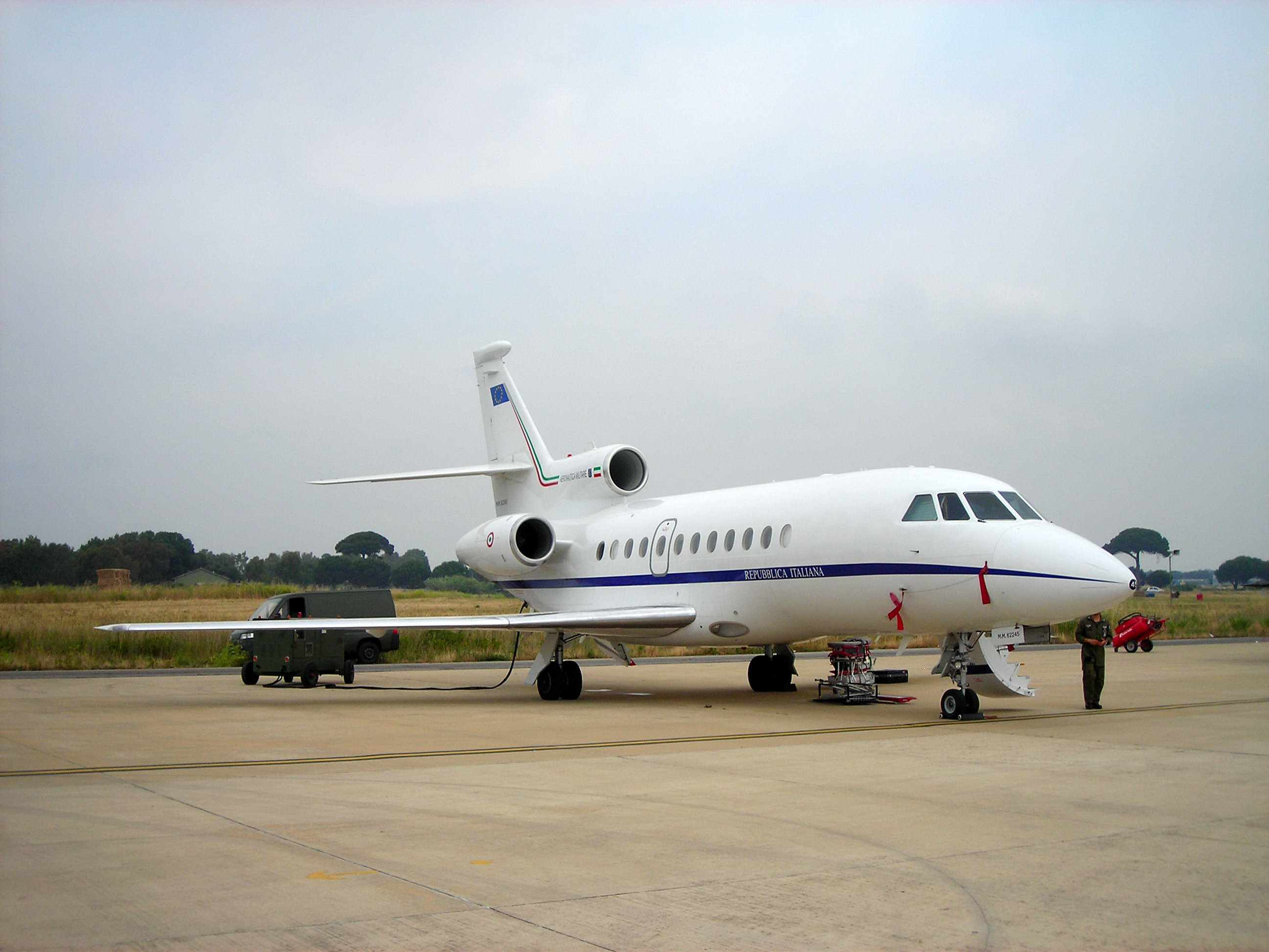 Picture taken during "Giornata Azzurra" 2007 (Italian Air Force airshow) at Pratica di Mare AFB, Italy. Dassault Falcon 900 in medevac configuration of Italian Air Force